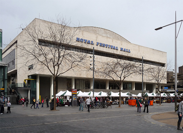 Royal Festival Hall, Belvedere Road, London